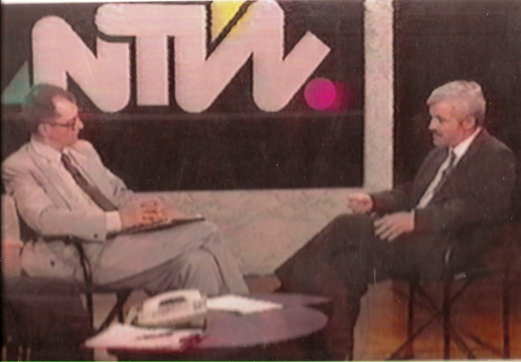 A.T.Kijowski's Talk Show whith Jan Krzysztof Bielecki